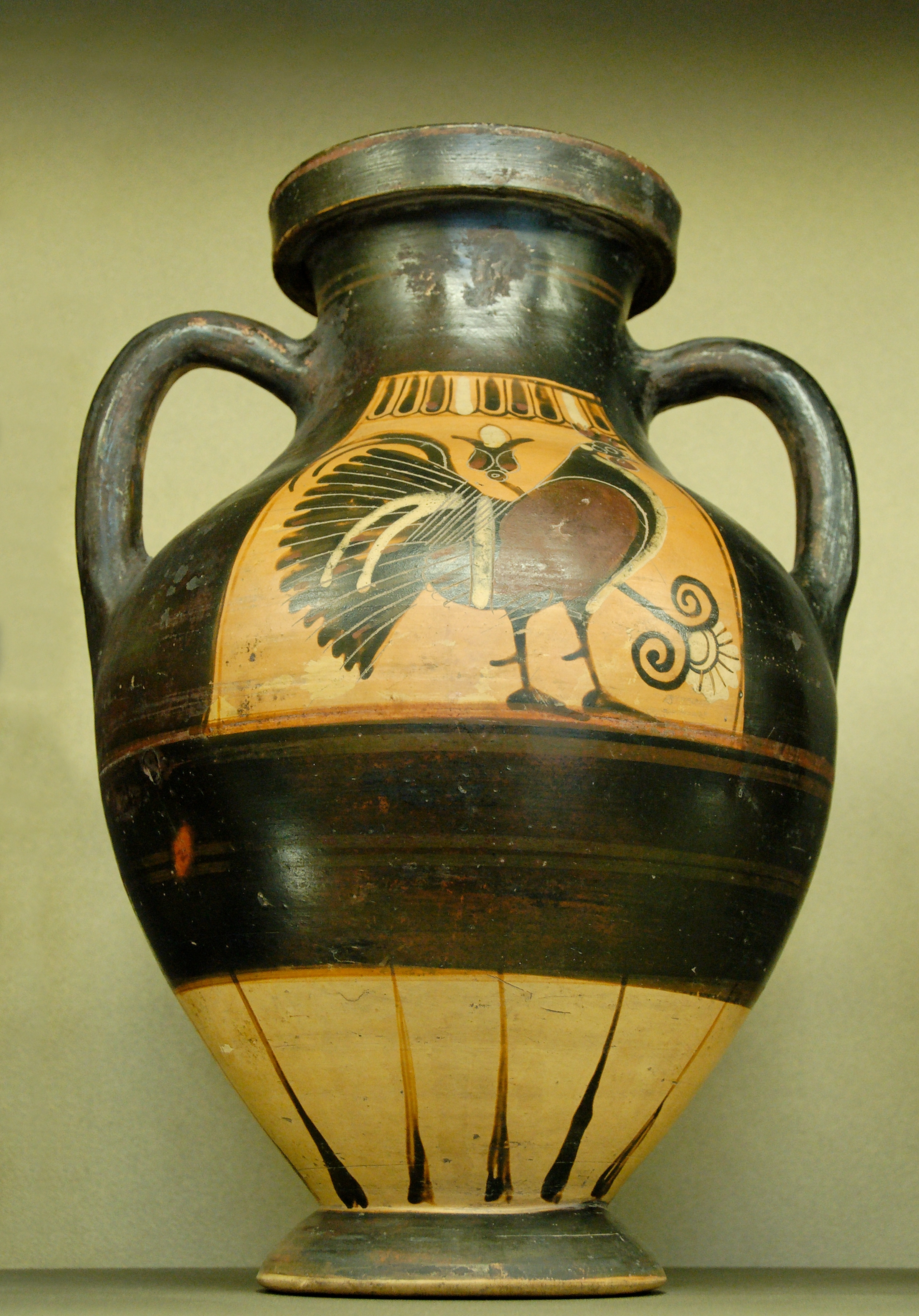 Cockerel. Side B from a Late Corinthian amphora.